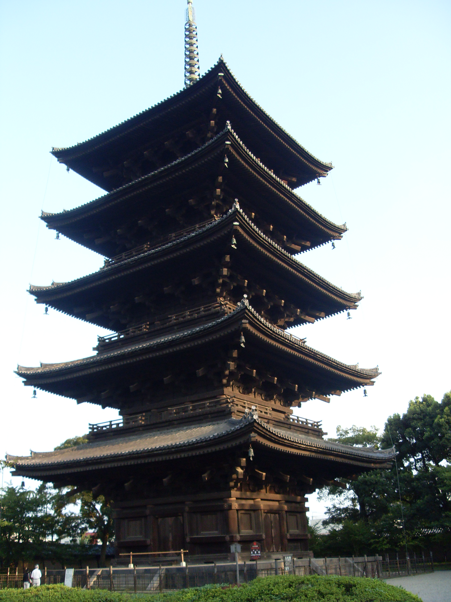 Pagoda at Toji, Kyoto